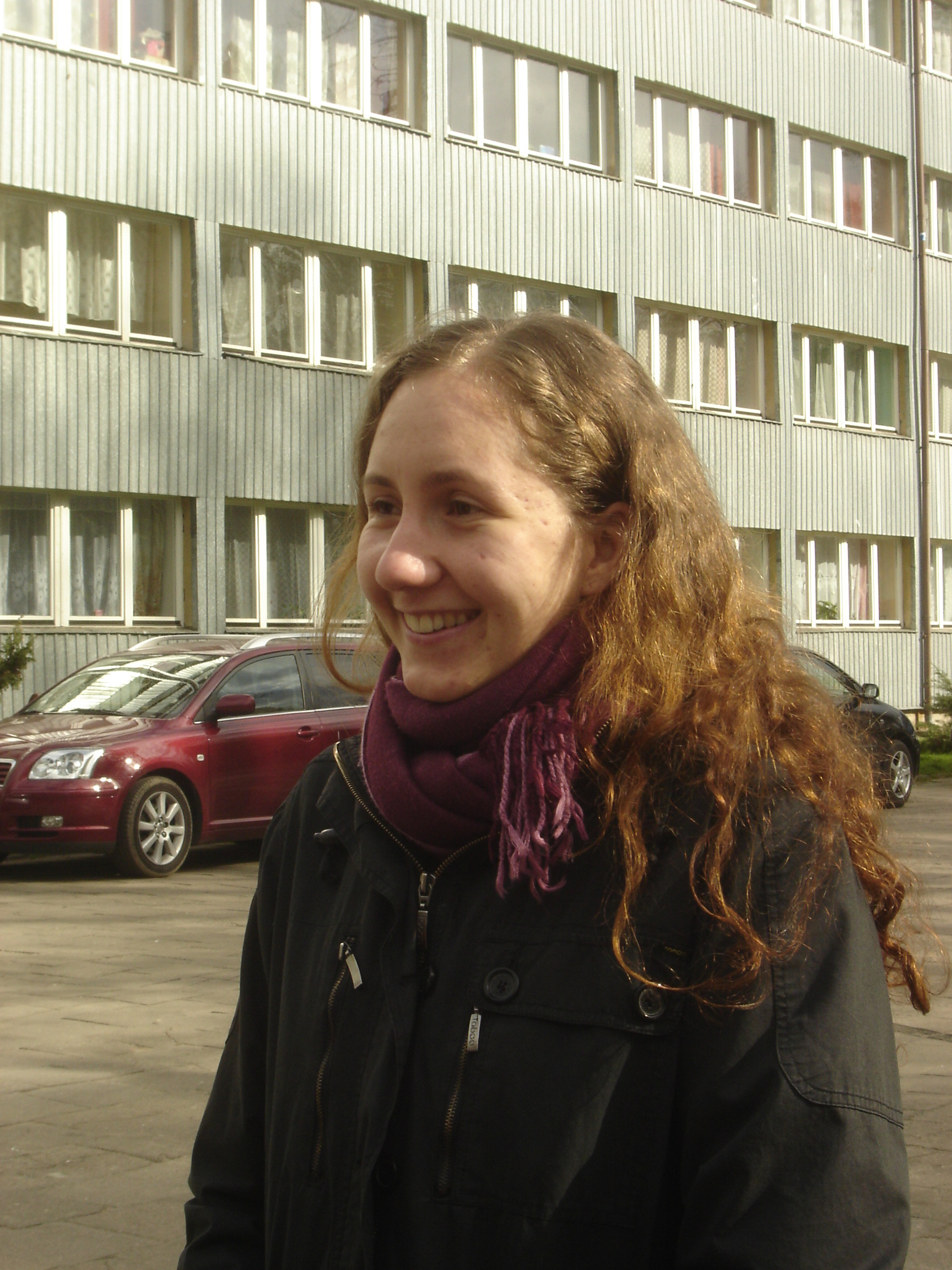 Olga (WarX's girlfriend).